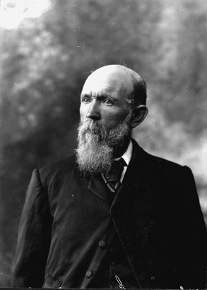 This image shows a photograph of Paddy Hannan, taken and published in the 1920s.